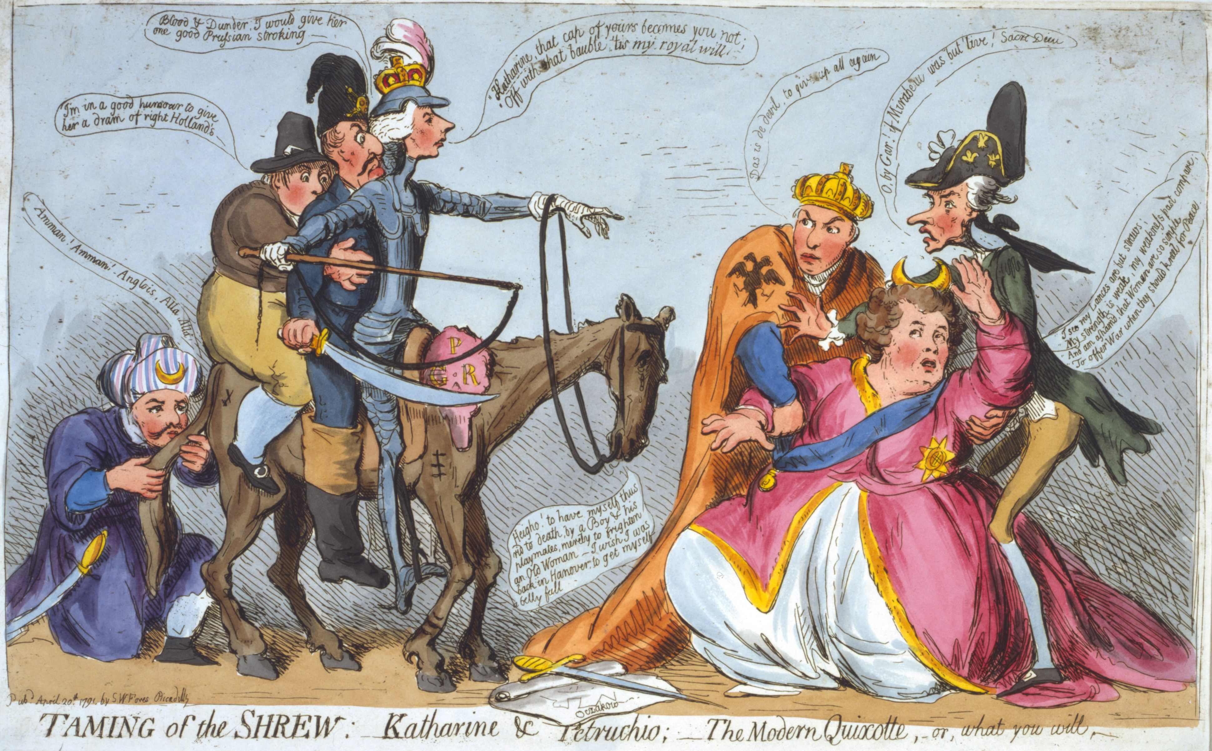 Taming of the shrew: —Katharine & Petruchio; —The modern Quixotte, —or, what you will— SUMMARY: Cartoon shows Catherine II, faint and shying away from William Pitt, who appears as Petruchio, and Don Quixote on horseback (a lean and scarred George III whose authority has been usurped by Pitt), seated behind Pitt are the King of Prussia and a figure representing Holland as Sancho Panza, Selim III kneels to kiss the horse's tail; a gaunt figure representing the old order in France and Leopold II render assistence to Catherine by preventing her from falling to the ground. MEDIUM: 1 print : etching, hand-colored. CREATED/PUBLISHED: [London] : Pubd. by S.W. Fores, 1791 April 20th. According to Wright & Evans, Historical and Descriptive Account of the Caricatures of James Gillray (1851, OCLC 59510372), p. 33, "On the attempted intermediation of Great Britain, backed by Prussia and Holland, between Russia and Turkey, in the spring of 1791. Austria and France are giving encouragement to the Empress Catharine. Turkey, which was suffering severely, takes shelter behind Pitt and his supporters, who have ridden rather roughly the Hanoverian horse."